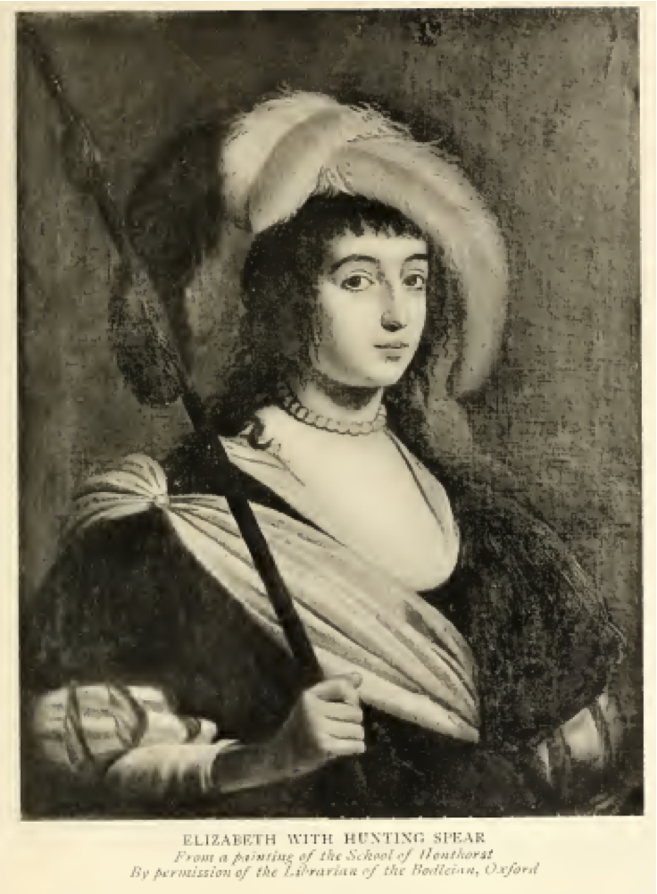 Elisabeth of Bohemia-Palatinate with hunting spear from A Sister of Prince Rupert by E. Godfrey. According from the text the original painting this photo is based off of is in the Library of Bodleian Oxford in the School of Honthorst.